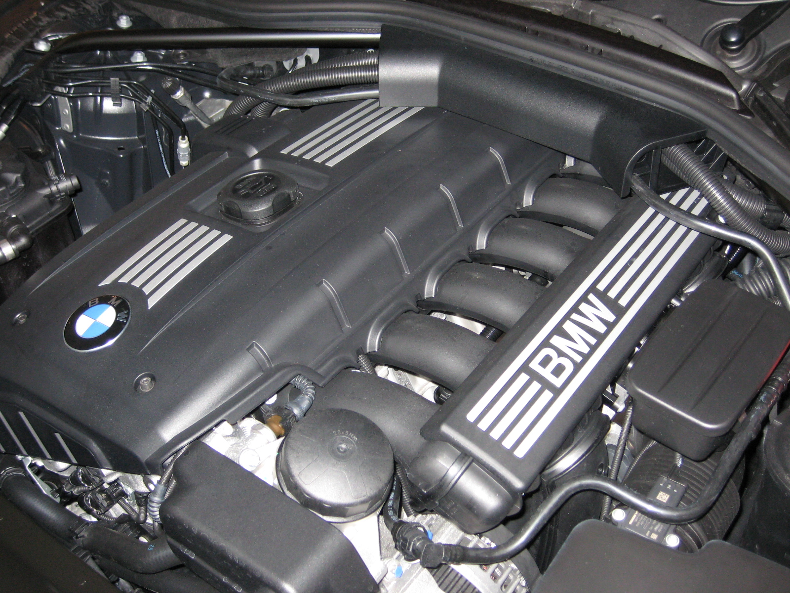 BMW N52B30A 3.0L Straight6 Engine on BMW E60 530i